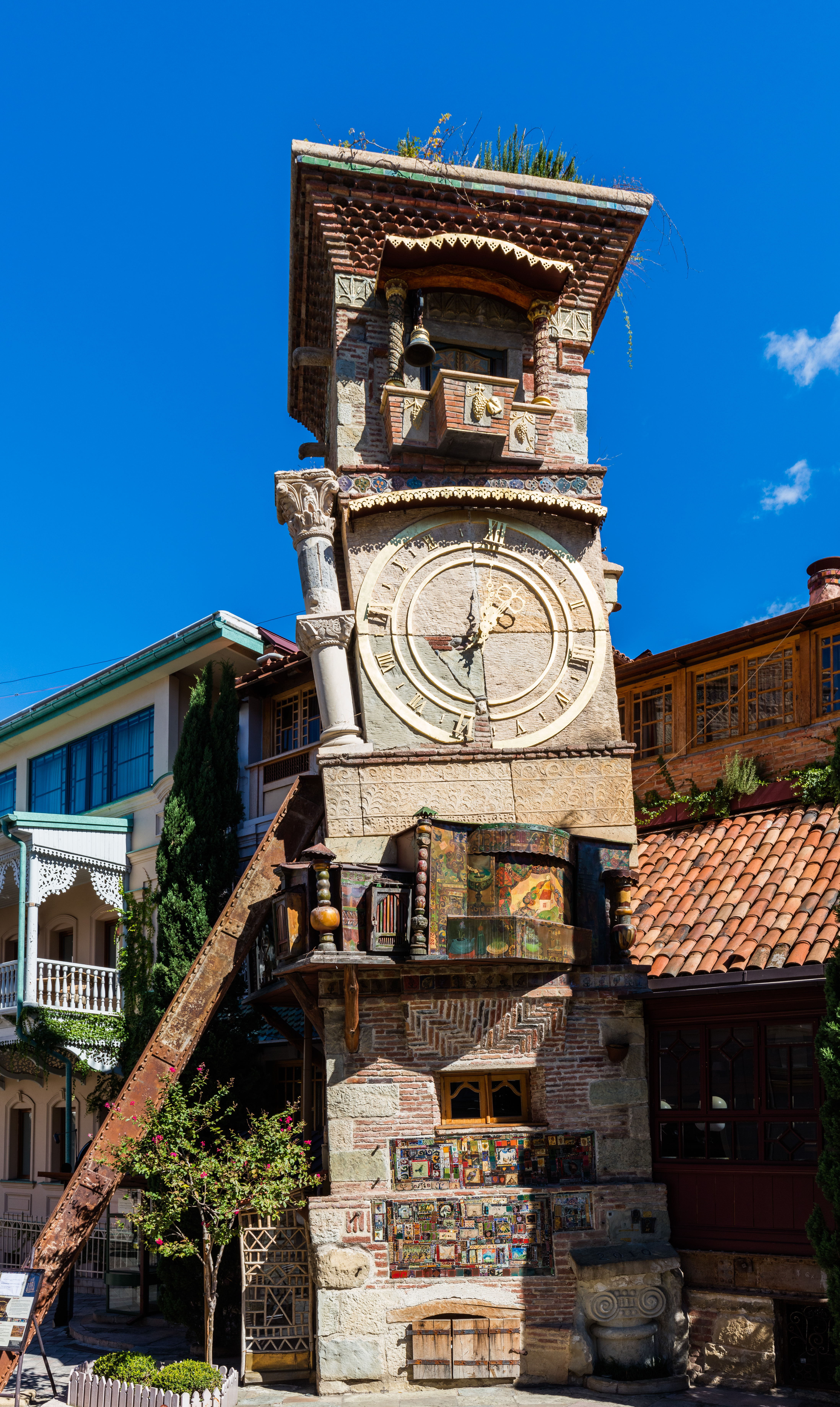 Rezo Gabriadze Marionette Theater, Tbilisi, Georgia